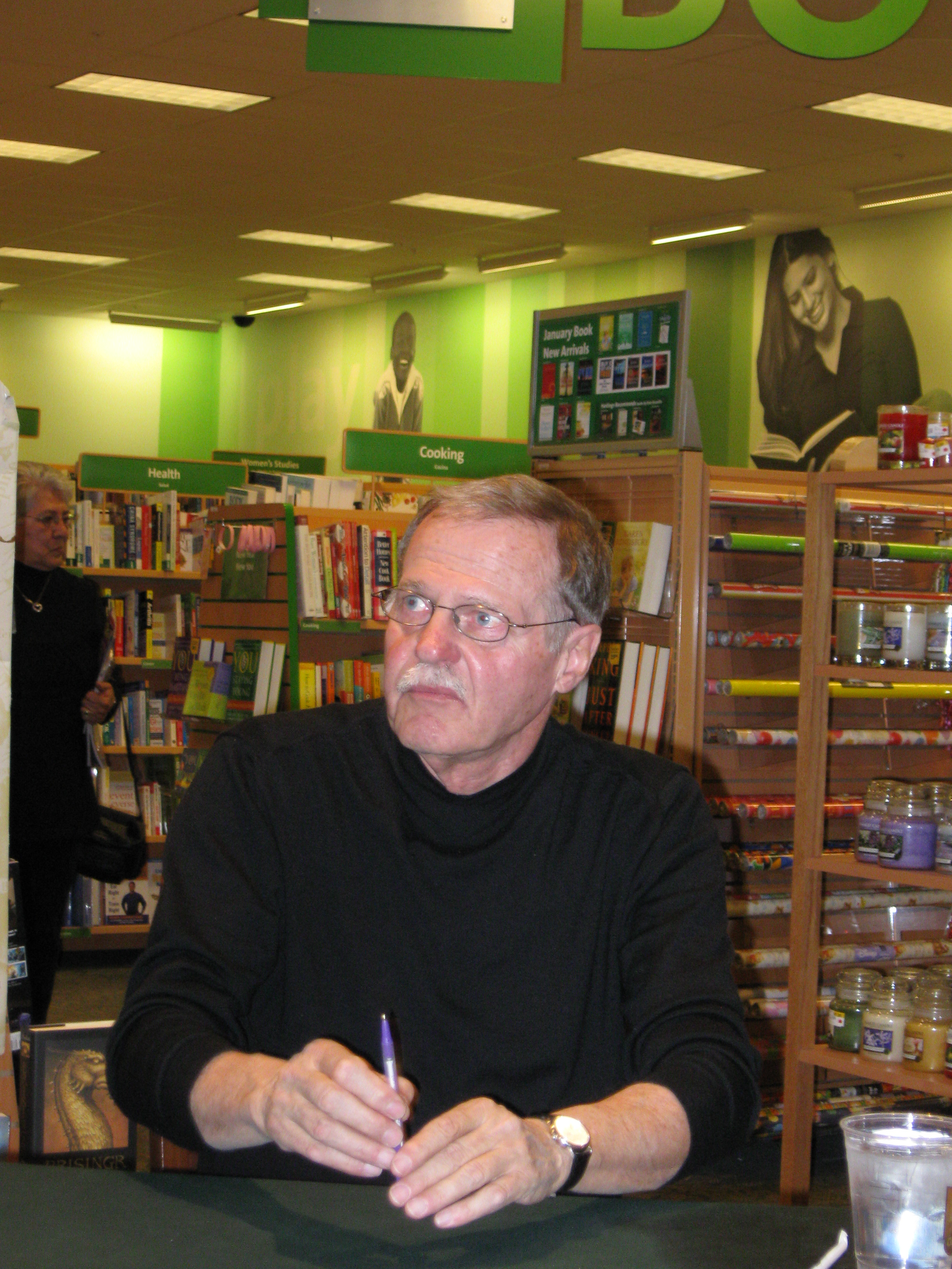 New Mexico author Michael McGarrity at a signing of his book Dead or Alive. Photographed in Alamogordo, New Mexico, January 2009.